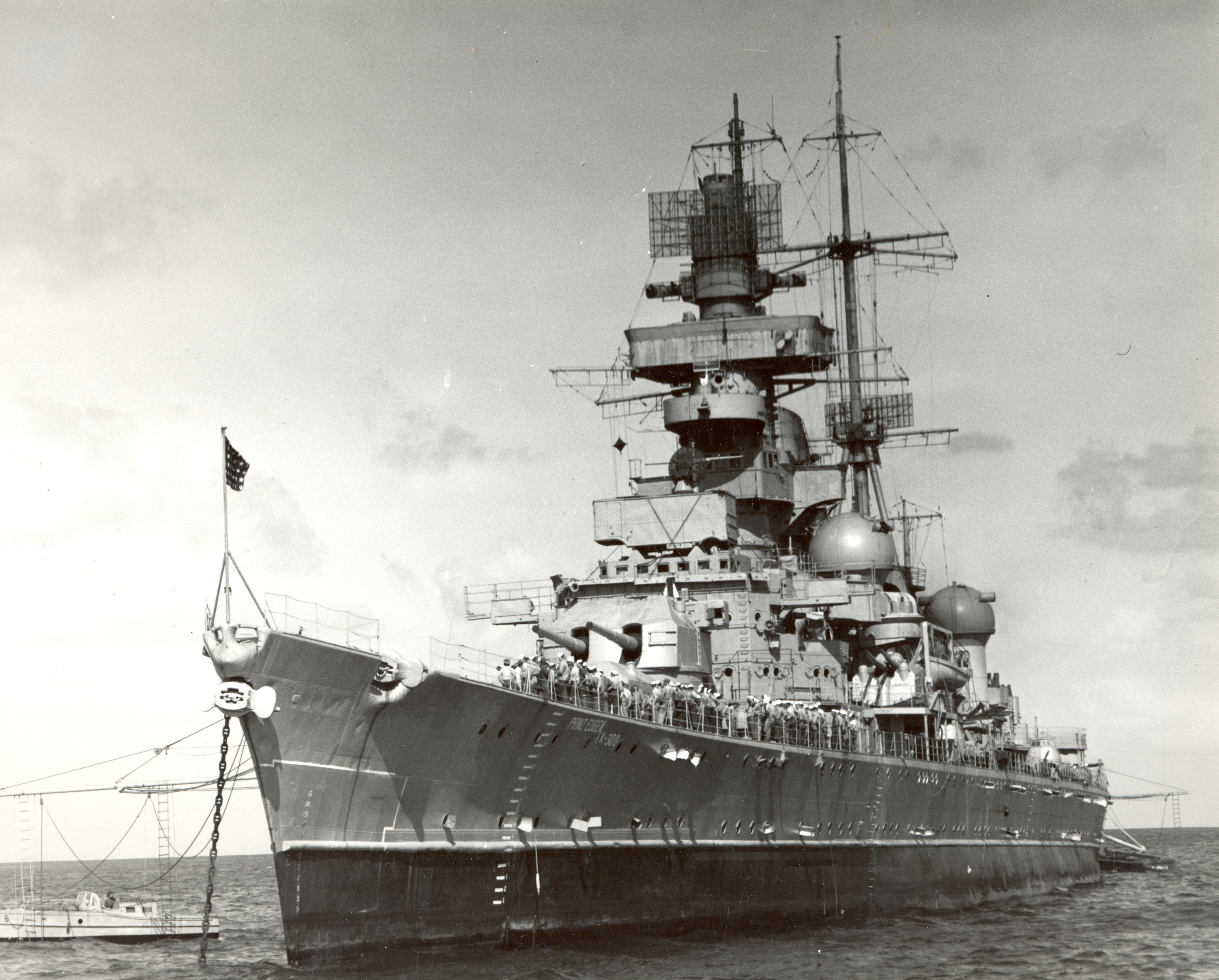 USS Prinz Eugen (IX-300), a former German heavy cruiser, ready for target duty in the operation Crossroads a-bomb tests, 14 June 1946. Note the radar van parked atop her bridge, and the German radars atop the director and mainmast.